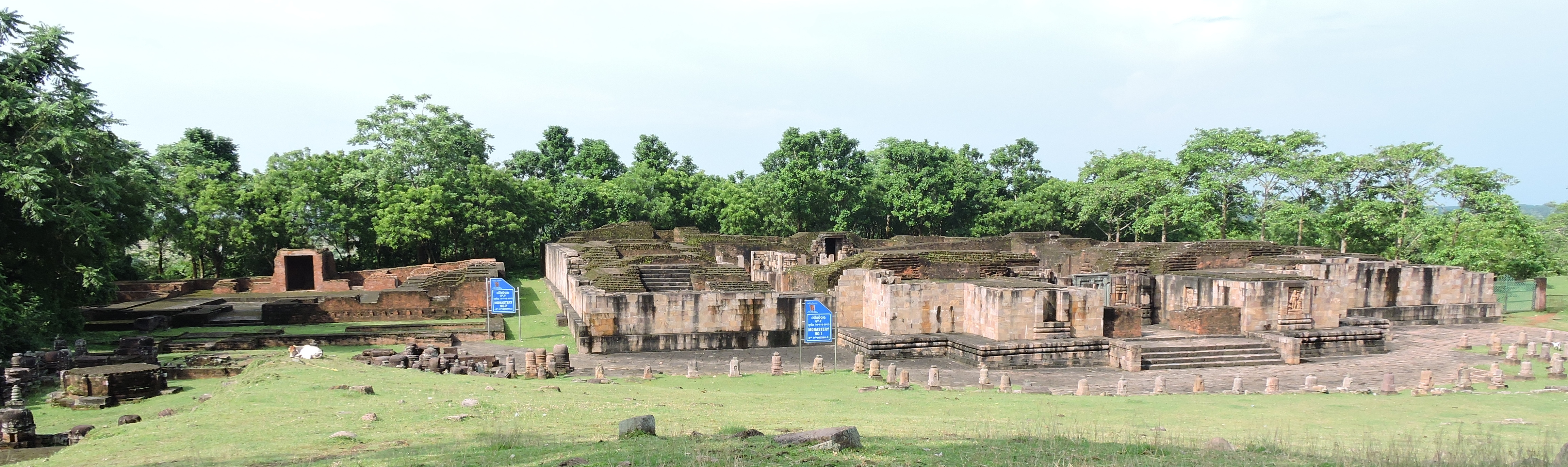 Ratnagiri open air museum in full view